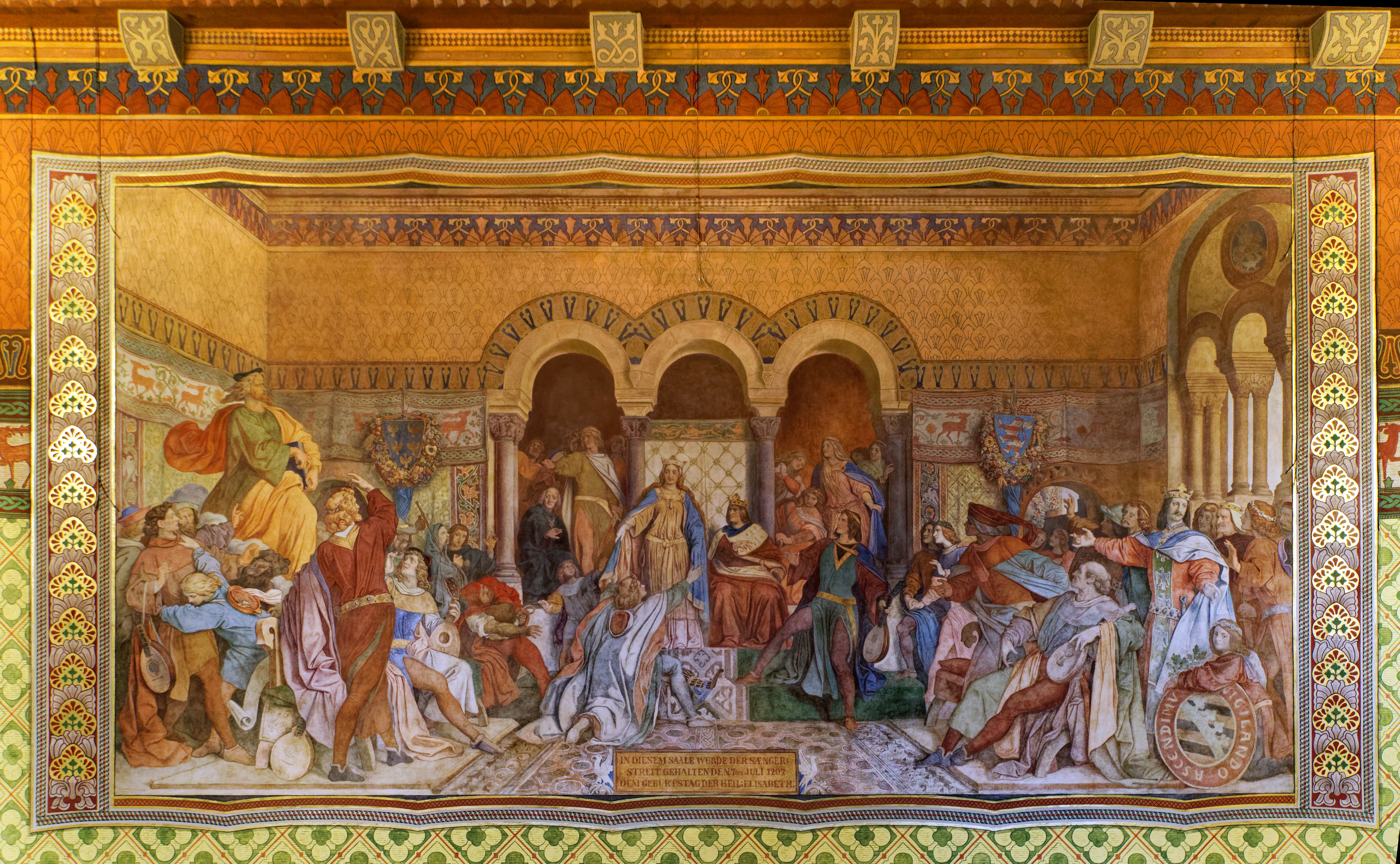 Singer´s hall in the palace of the Wartburg.